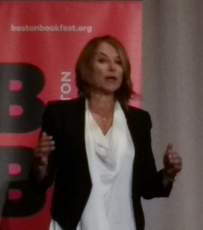 Esther Perel at the Boston Globe Book Fair in Boston, Massachusetts.